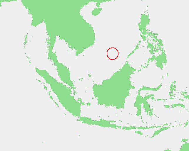 Location Spratly_Islands